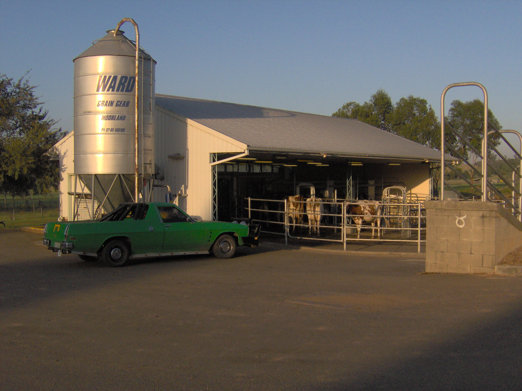 Hurlstone Agricultural High School dairy. Picture taken myself, 9th March 2006